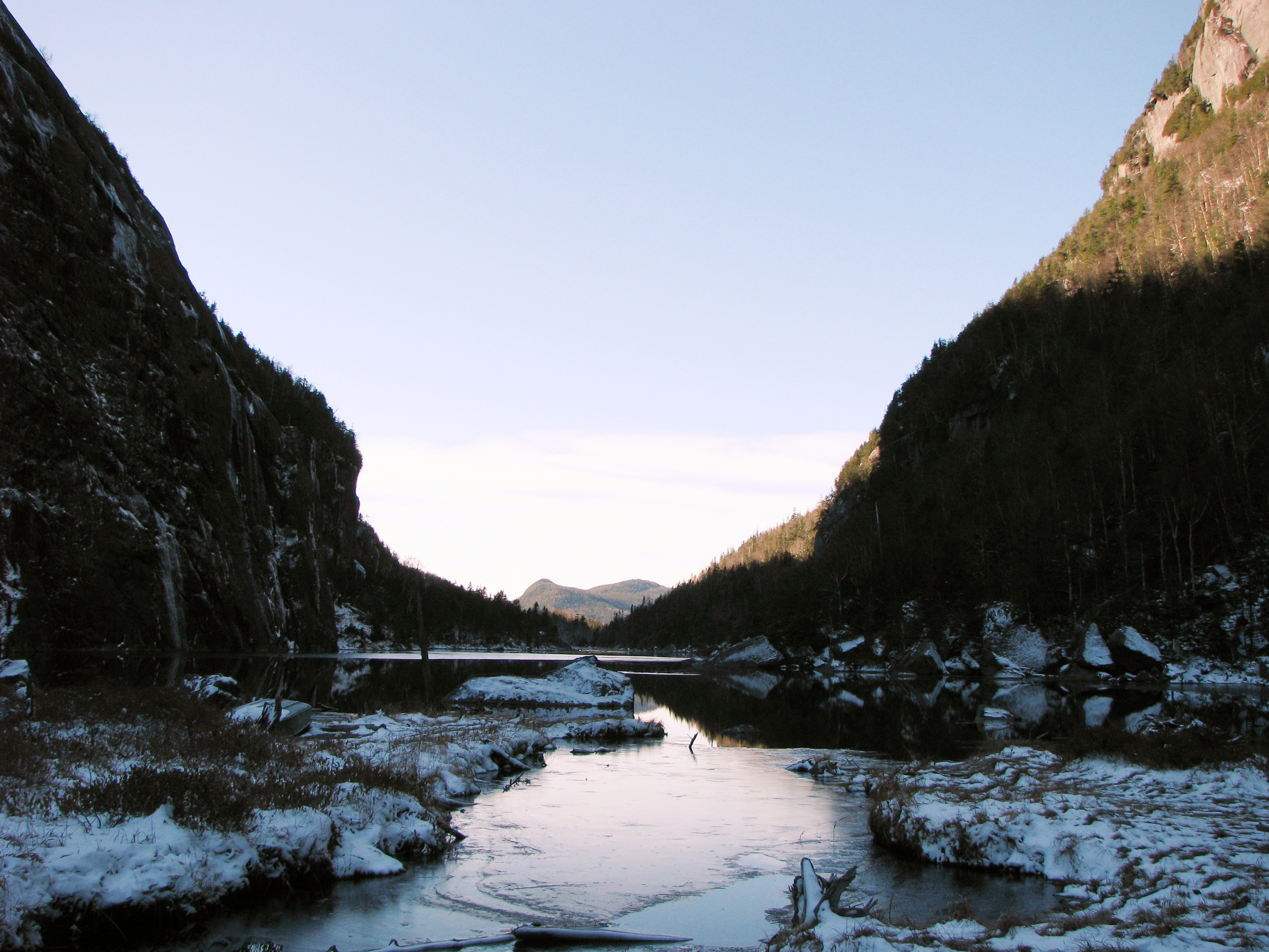 Avalanche Lake, looking south, Mount Colden on the left, Avalanche Mountain on the right